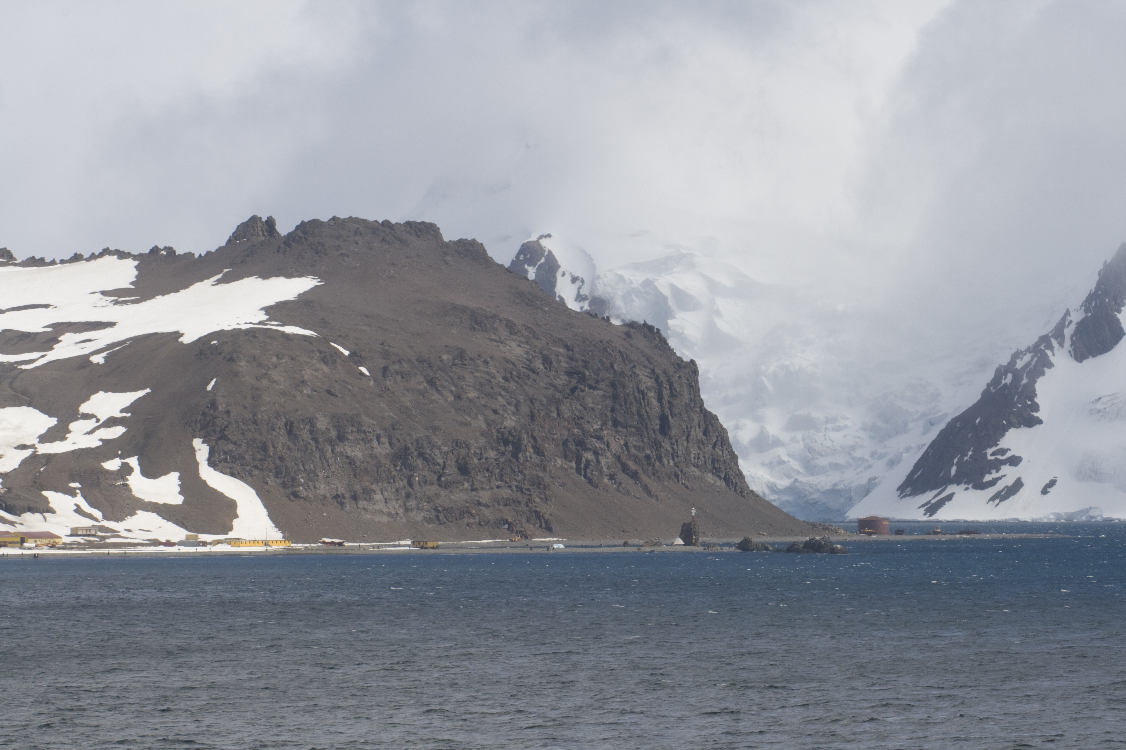 Henryk Arctowski Polish Antarctic Station below the Krzesanica Cliff at the north-eastern side of the Panorama Ridge near Point Thomas.